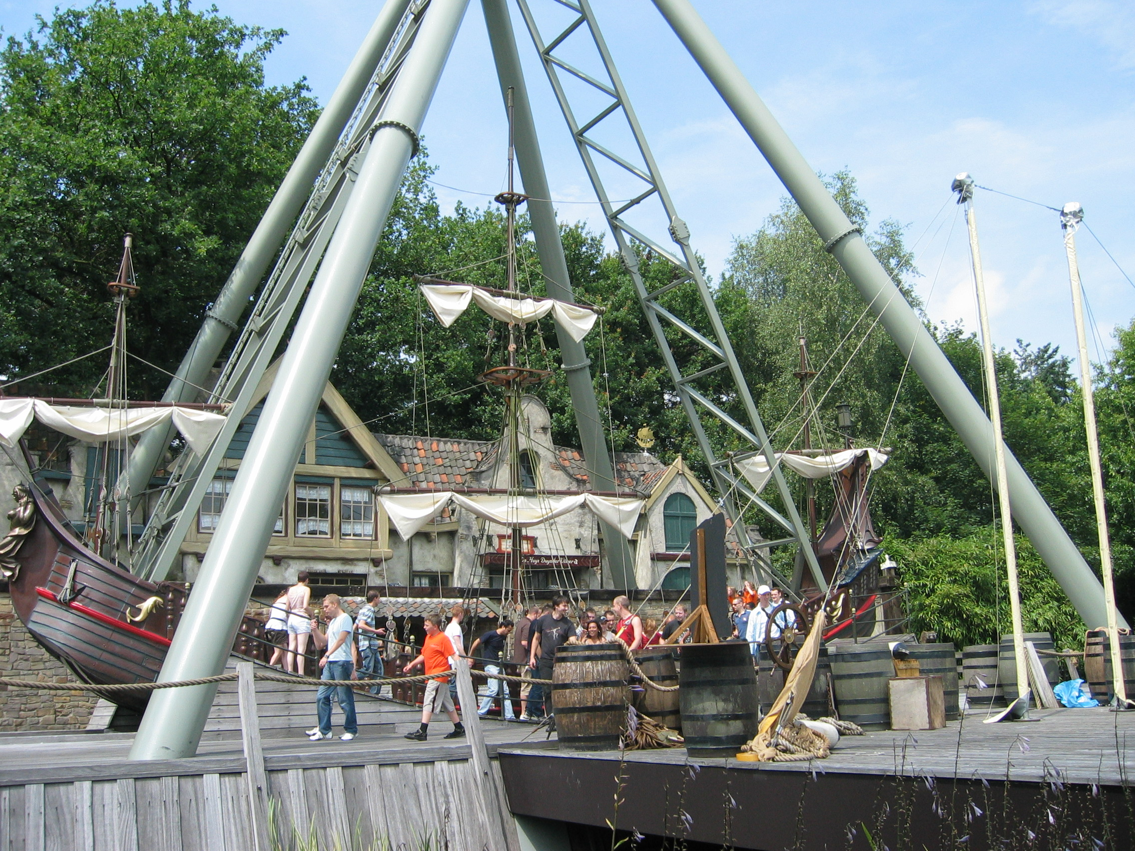 Photo of the Half Moon ride in the amusement park Efteling, taken by me.